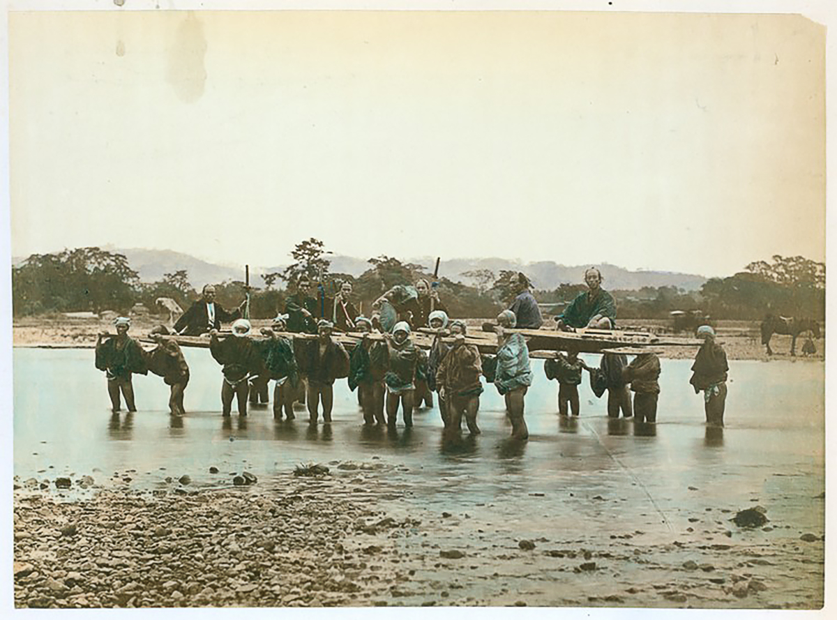 The ford at Sakawa-Nagawa, by Felice Beato. Hand-coloured albumen print, negative exposed between 1863 and 1885. View of porters at a ford on the Sakawa river, near Odawara, Japan.